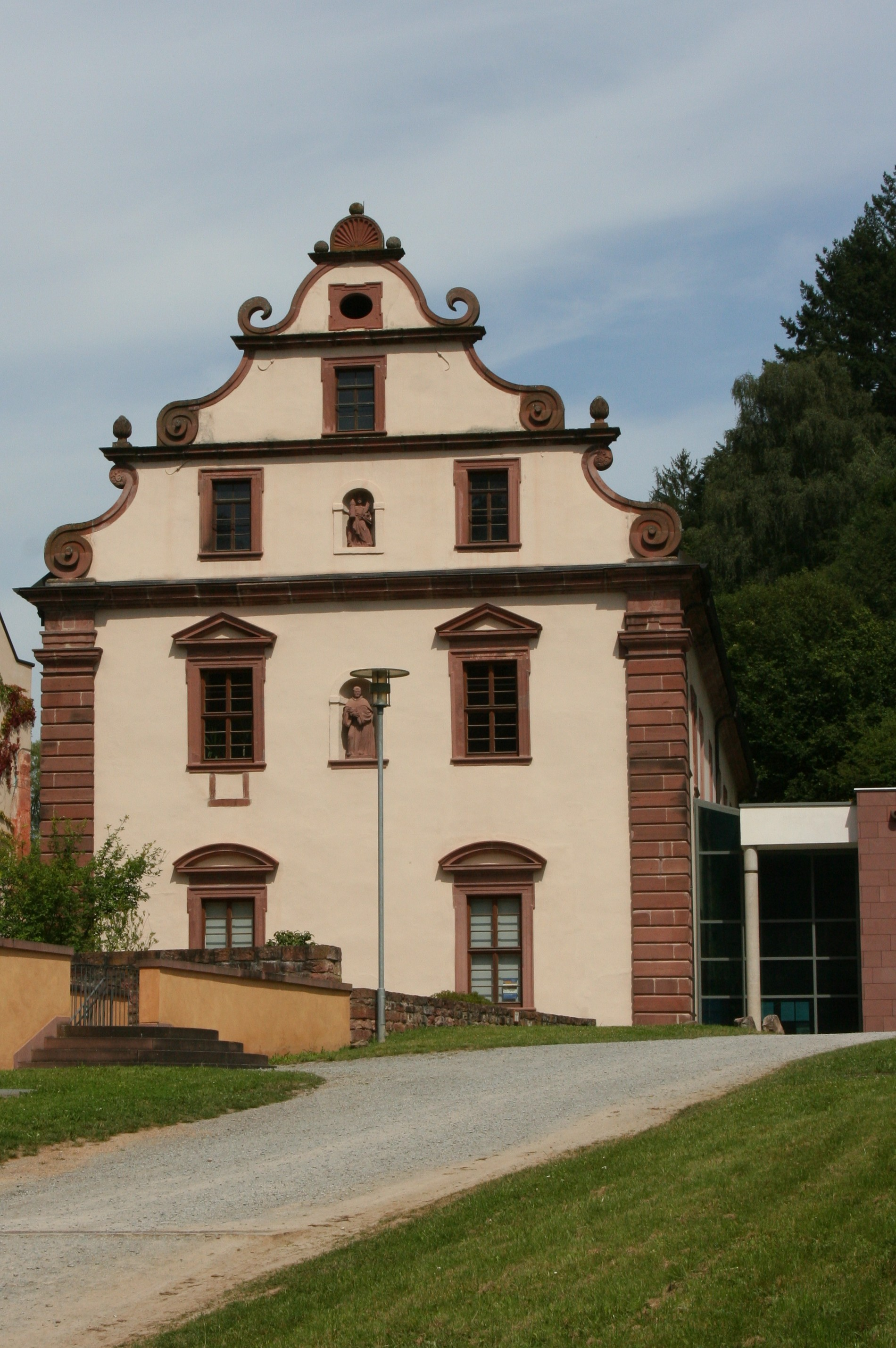 Bronnbach Abbey. Former hospital with archive annex (right)